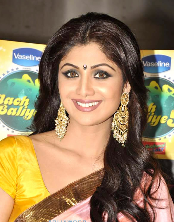 Shilpa Shetty on the sets of Nach Baliye 5. Episode: Govinda on the sets